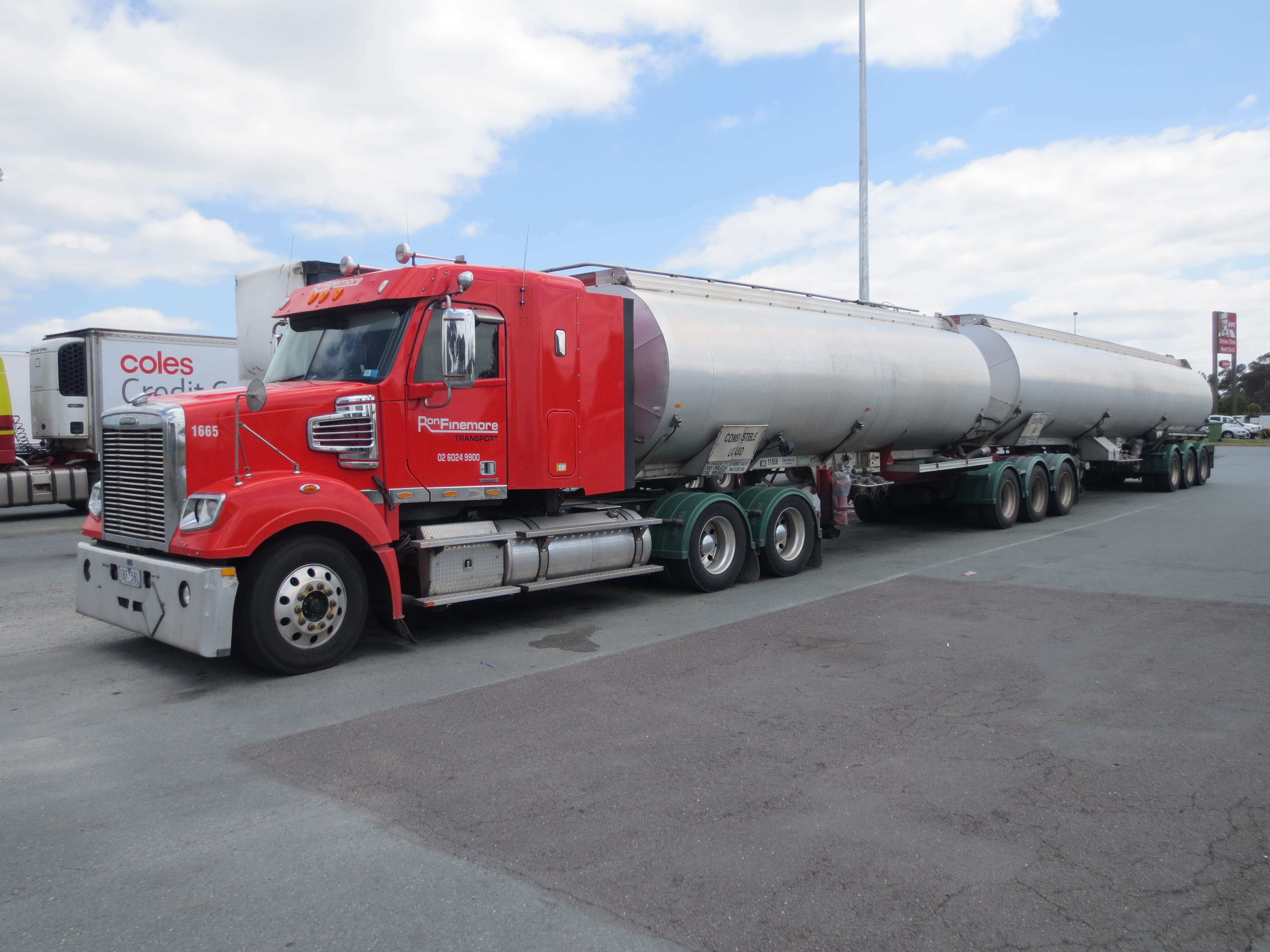 b double semi trailer at Yass truck stop on the Hume Valley